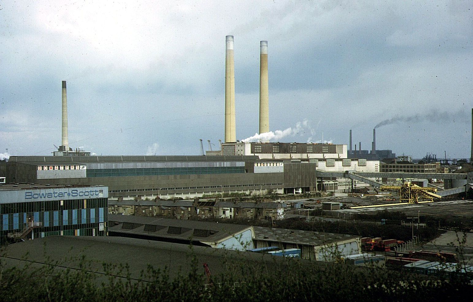 Northfleet Power Station (centre) seen across the Bowater Scott paper mills at Northfleet, Kent in 1973. In the background is Tilbury Power Station.